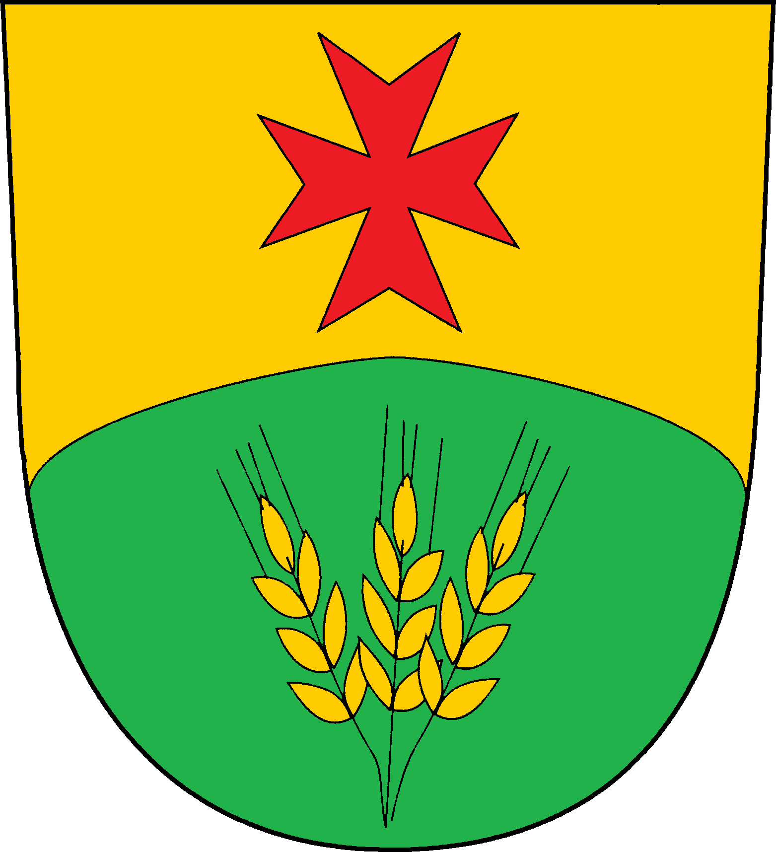 Coat of arms of the municipality Groß Disnack in Schleswig-Holstein, Germany.